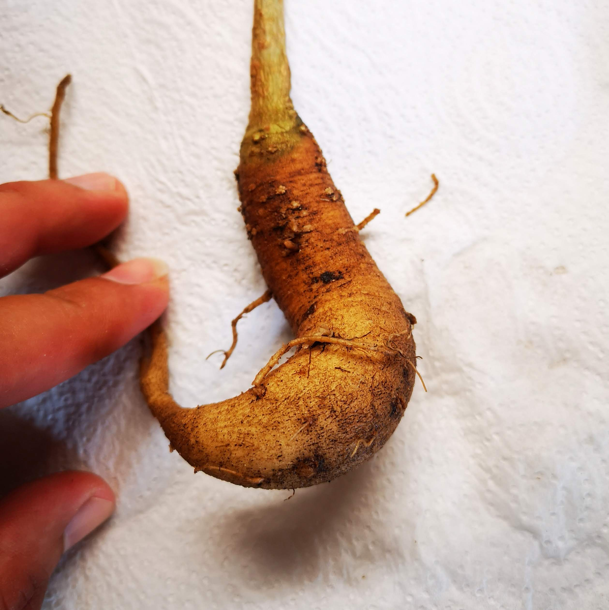 Moringa seedling root forming caudex